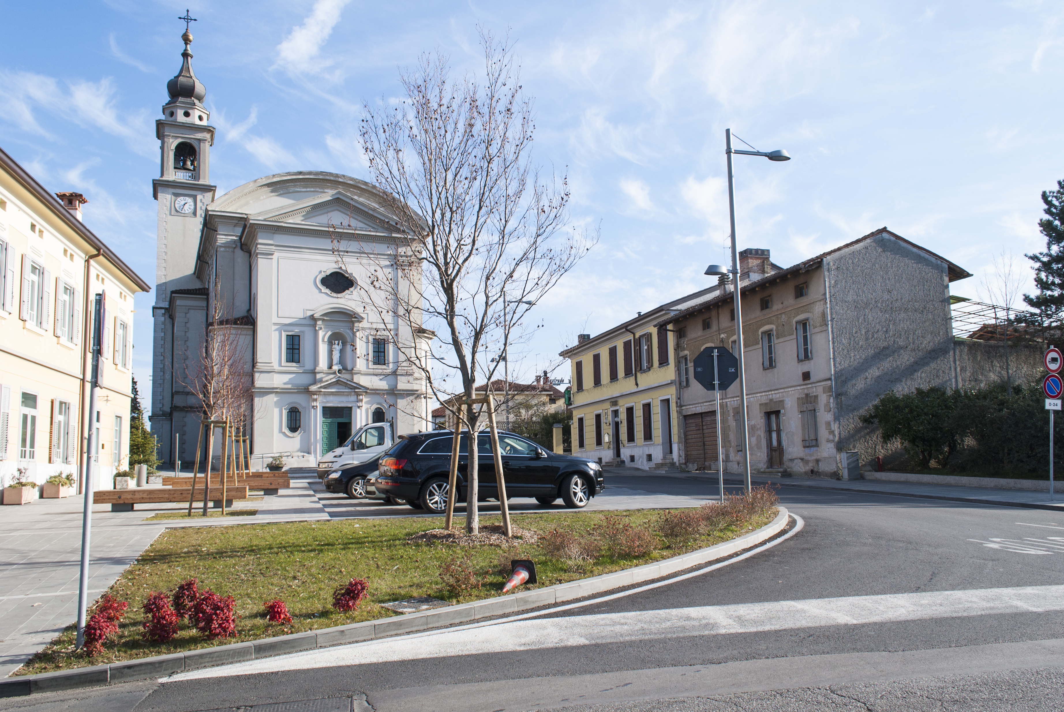 View of church sant'Andrea Apostolo (Saint Andrew), Gorizia.